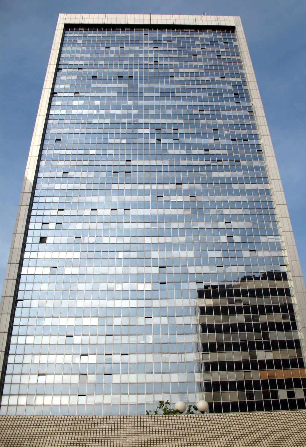 Diamond Tower, the central tower of the Diamond Stock Exchange complex in Ramat Gan, Israel